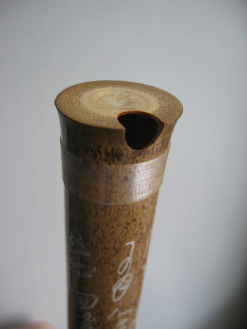 Blowing end of a Chinese xiao made by Xu Weihe